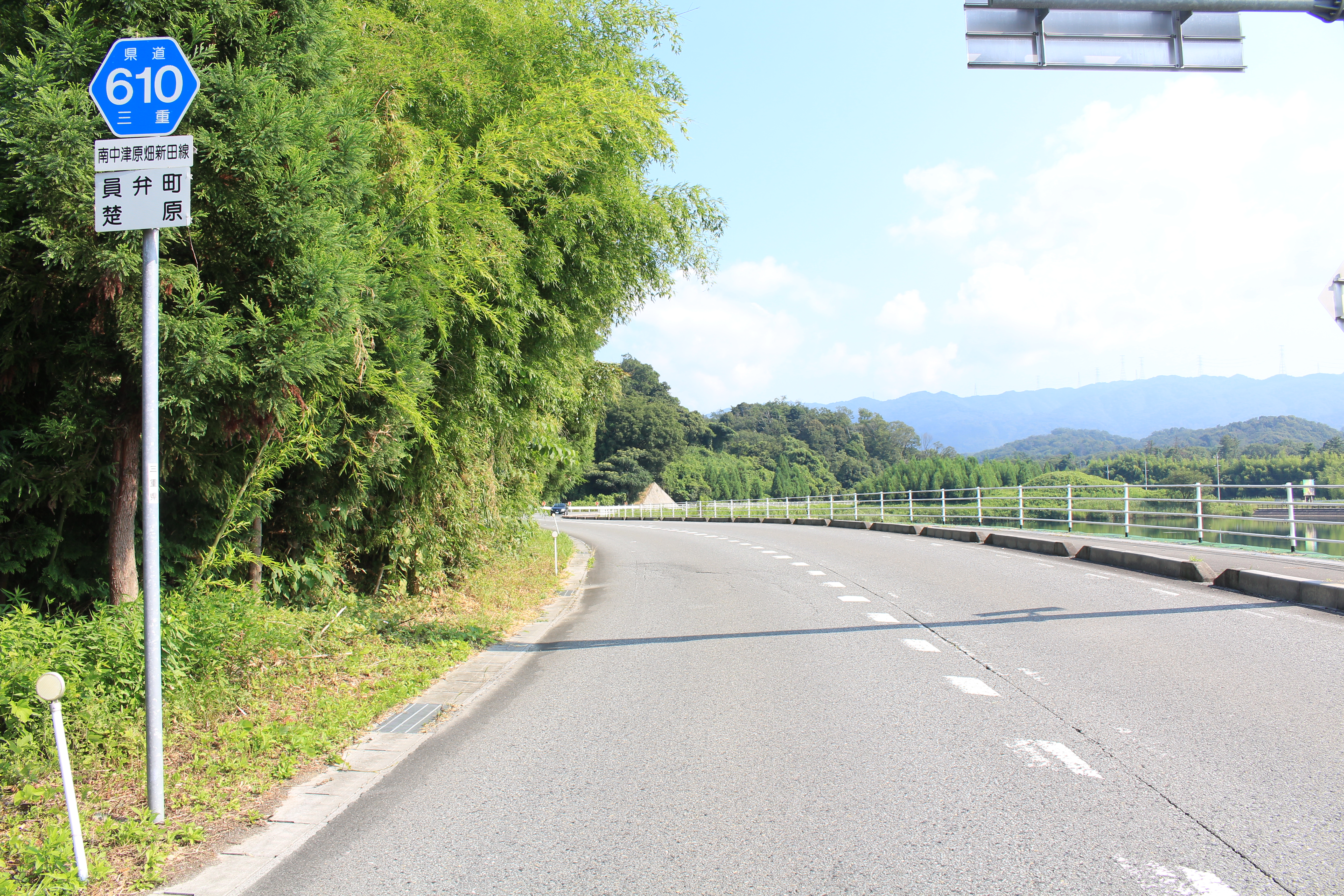 Mie Prefectural Road Route 610 in Sonohara, Inabe-cho, Inabe, Mie prefecture, Japan.